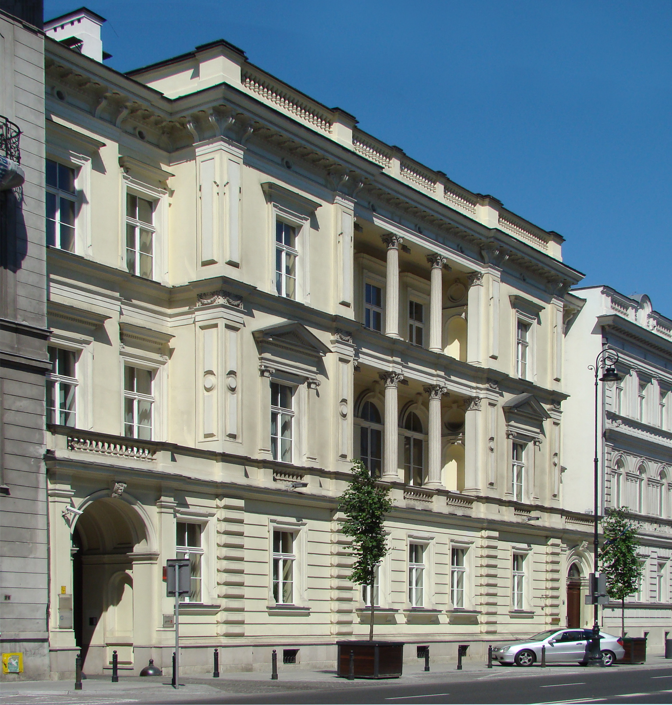 Karnicki Palace, Aleje Ujazdowskie 39, architect Józef Huss, 1877-1888